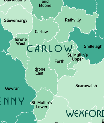 Map of the Baronies of Ireland in 1846. Source data: Ordnance Survey of Ireland: Baronies 2011 (OSI Opendata Ordnance Survey of Northern Ireland Townlands (OSNI Opendata National University of Ireland Galway Barony Maps (